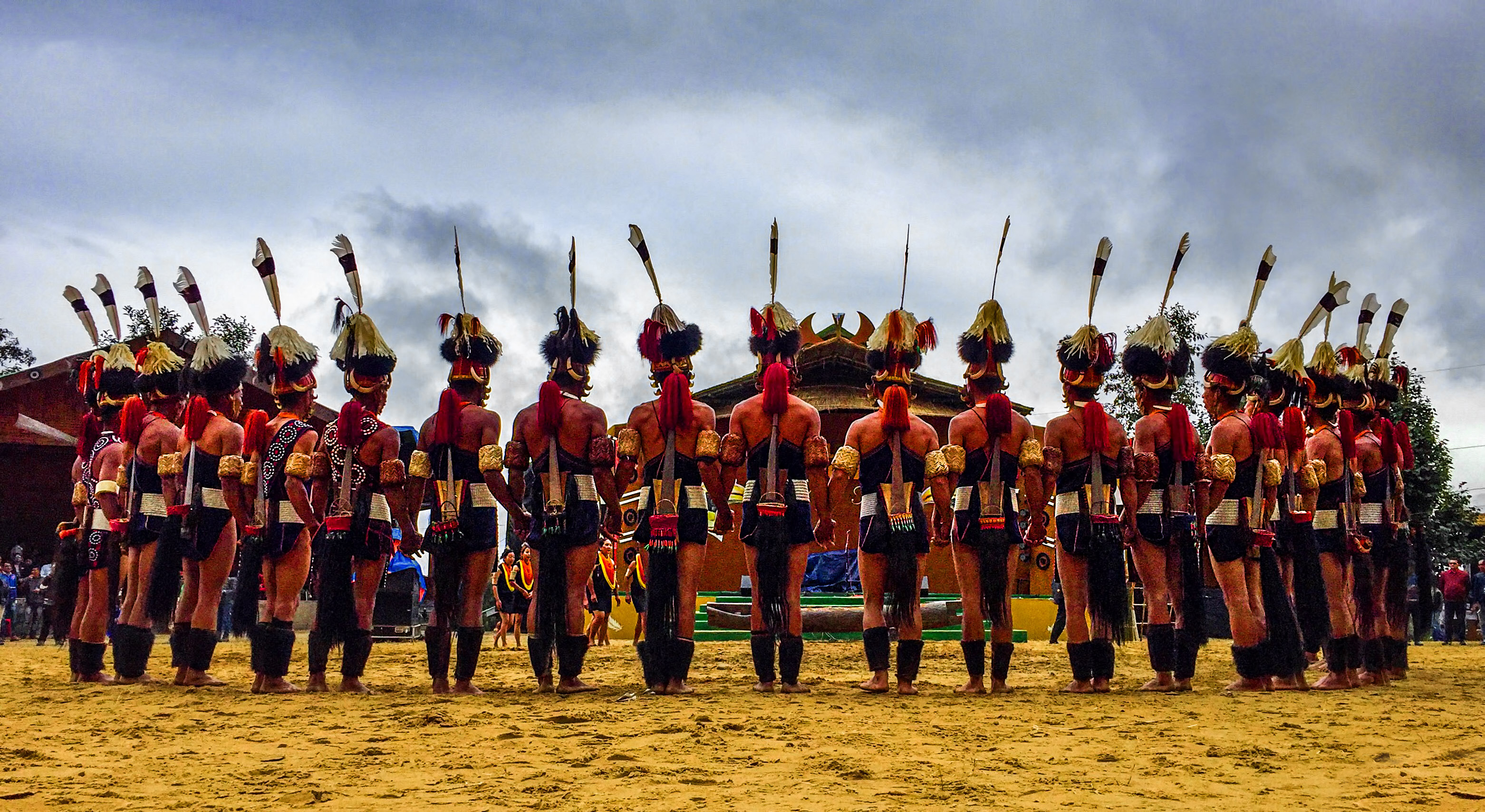 Naga tribe performing their traditional dance on Hornbill Festival Ground.